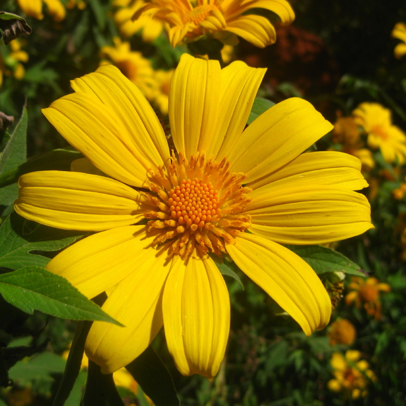 The flower head of the Mexican sunflower (Tithonia diversifolia, Asteraceae).